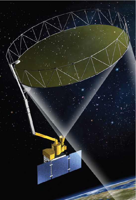 The large antenna that is shared by both radar and radiometer is SMAP’s most prominent feature. It operates just like a satellite dish, only is much larger, where a reflector collects all of the radio waves which focuses them into the feed horn. The feed horn collects the echoes from the radar and the surface emissions from the ground and sends them to the radar and radiometer electronics for processing. The feed horn is a large cone visible on the outside of the spacecraft. The antenna reflector is a mesh antenna 6 meters (about 20 feet) in diameter.